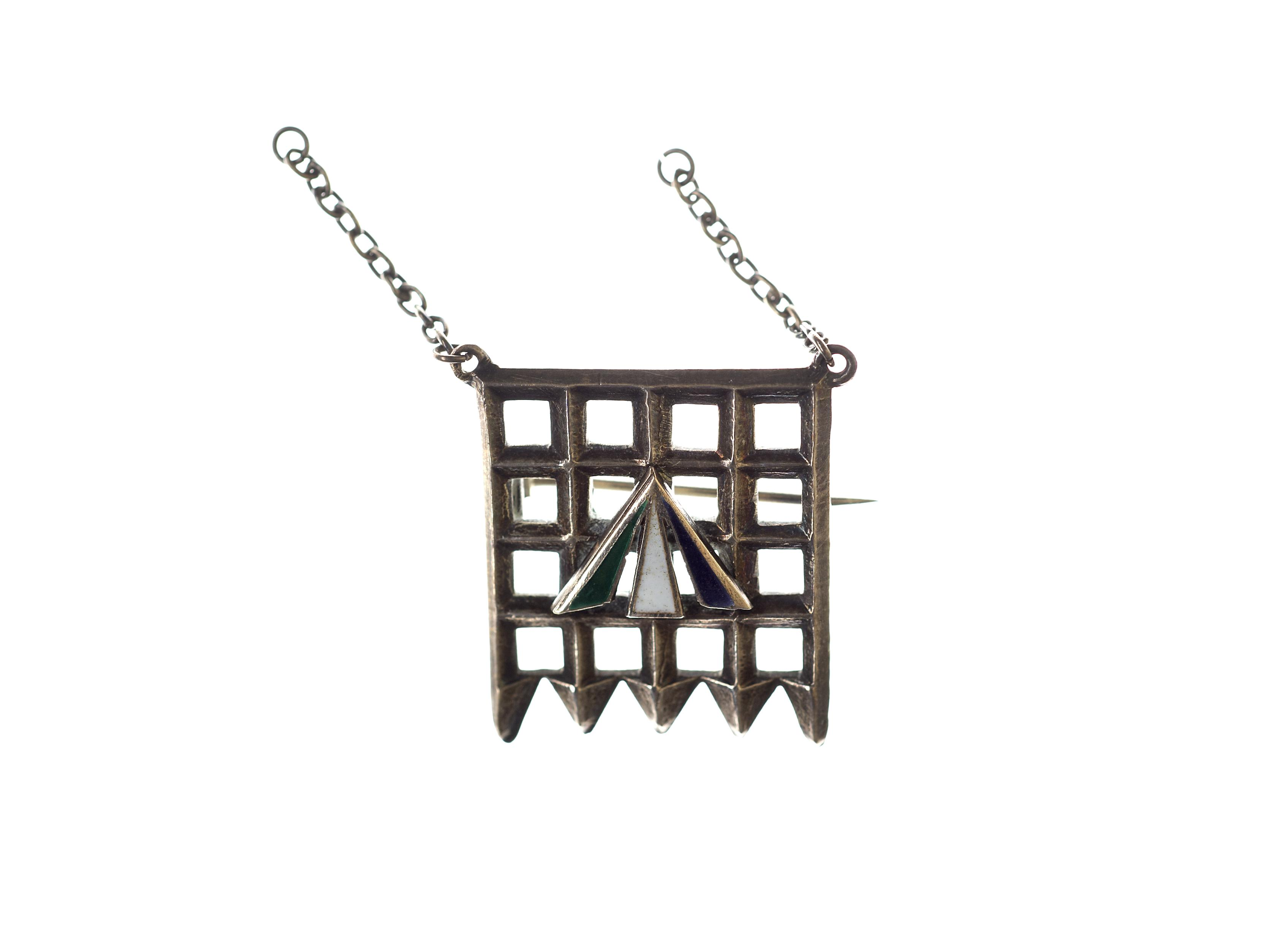 Suffrage Wearables The Women's Library collection